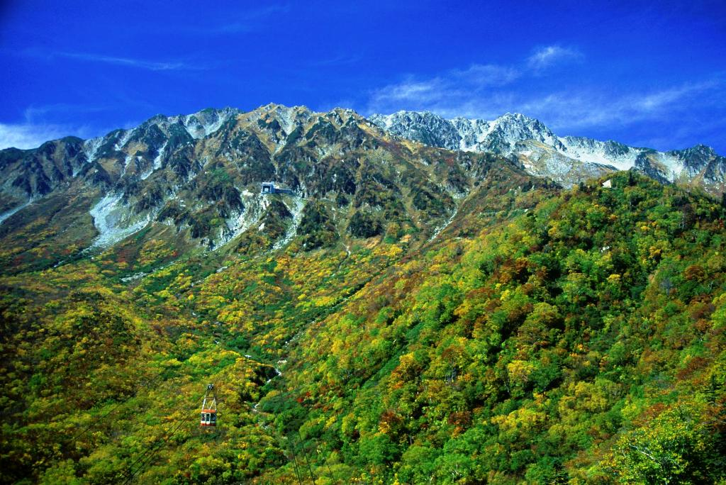 Tateyama_from Kurobedaira_1994-10-9